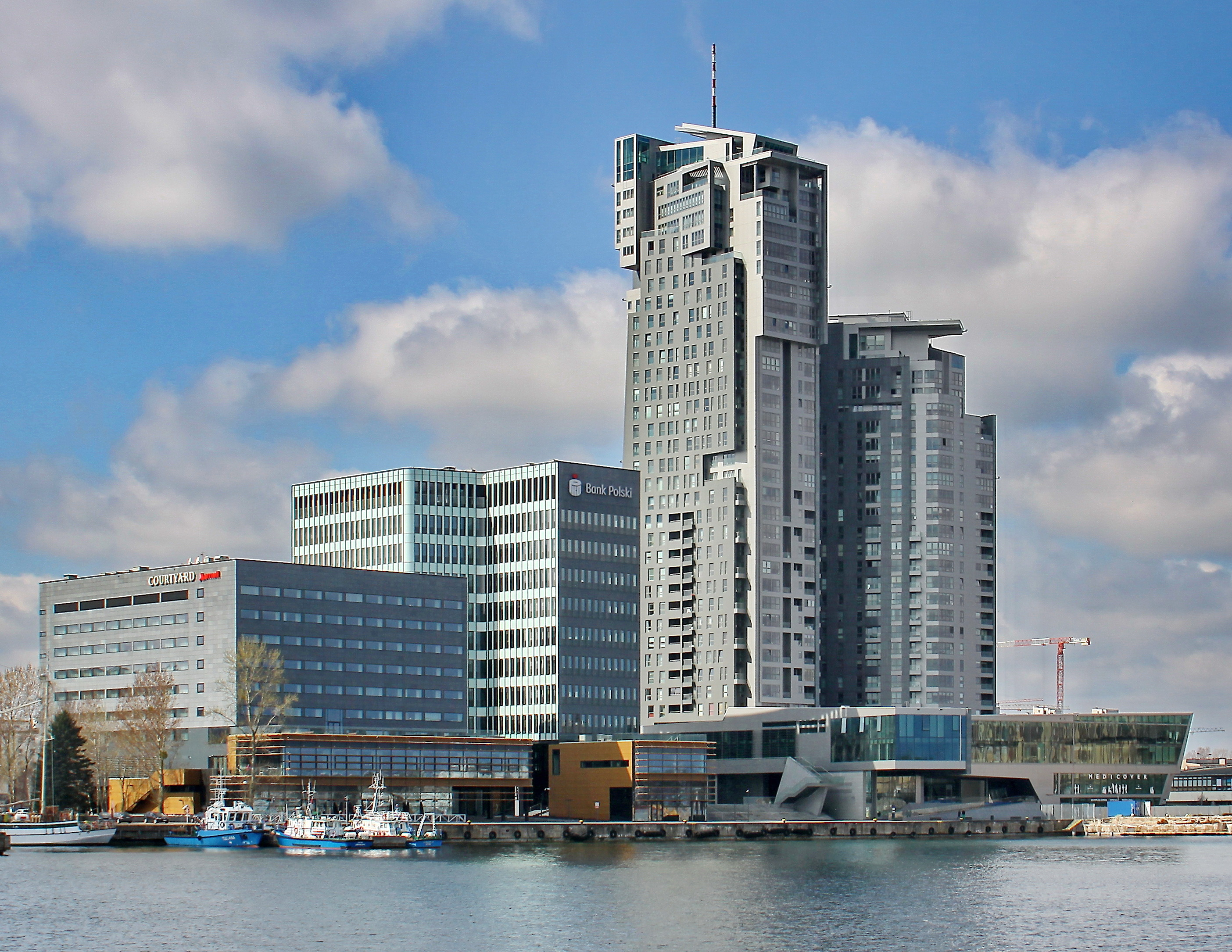 Sea Towers in Gdynia (a view from the port - April 2018)